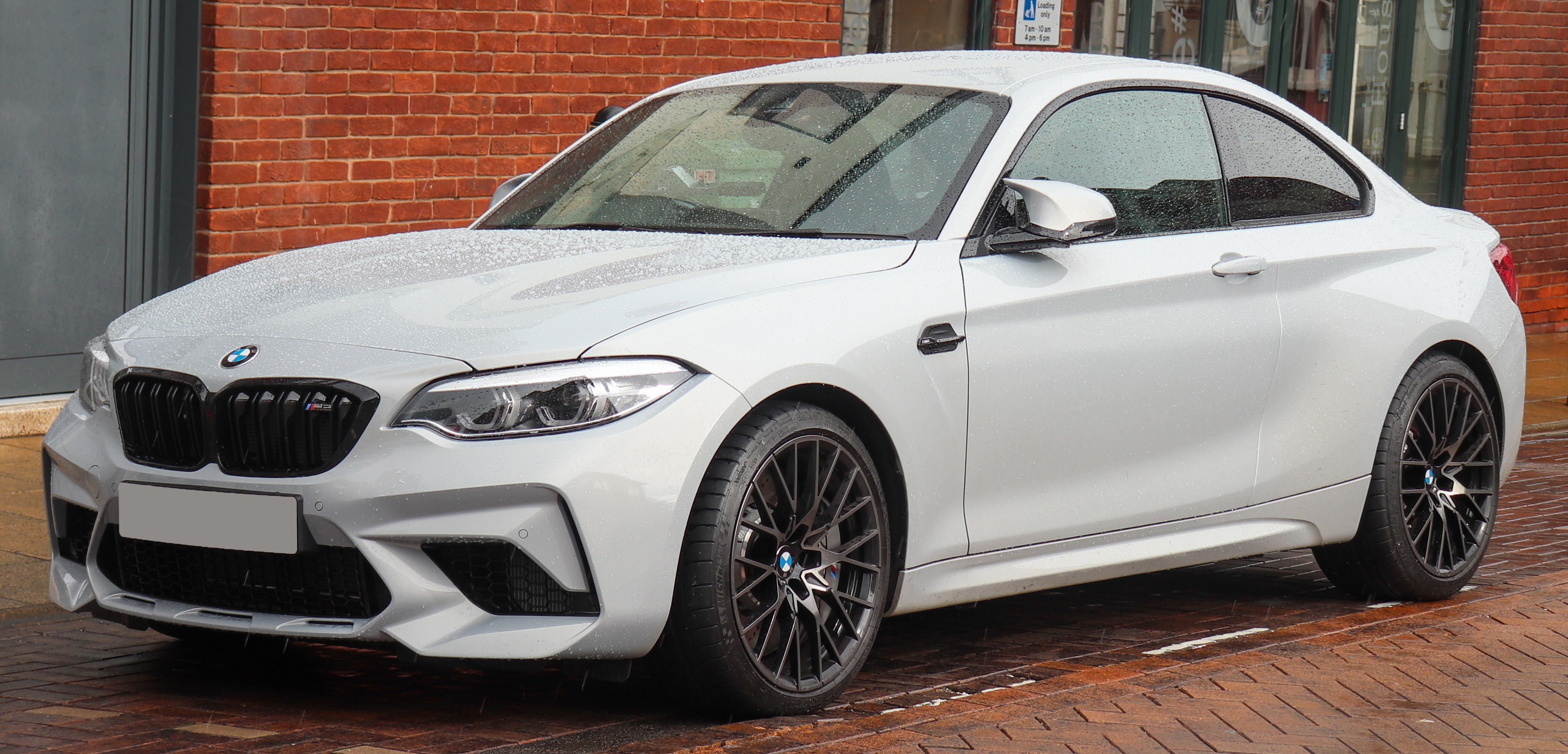 2019 BMW M2 Competition Automatic 3.0 Front Taken in Warwick